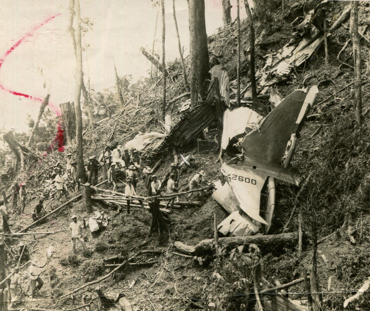 The crash site of the Philippine Presidential Plane where Ramon Magsaysay rode from Cebu on the way to Manila on March 17, 1957